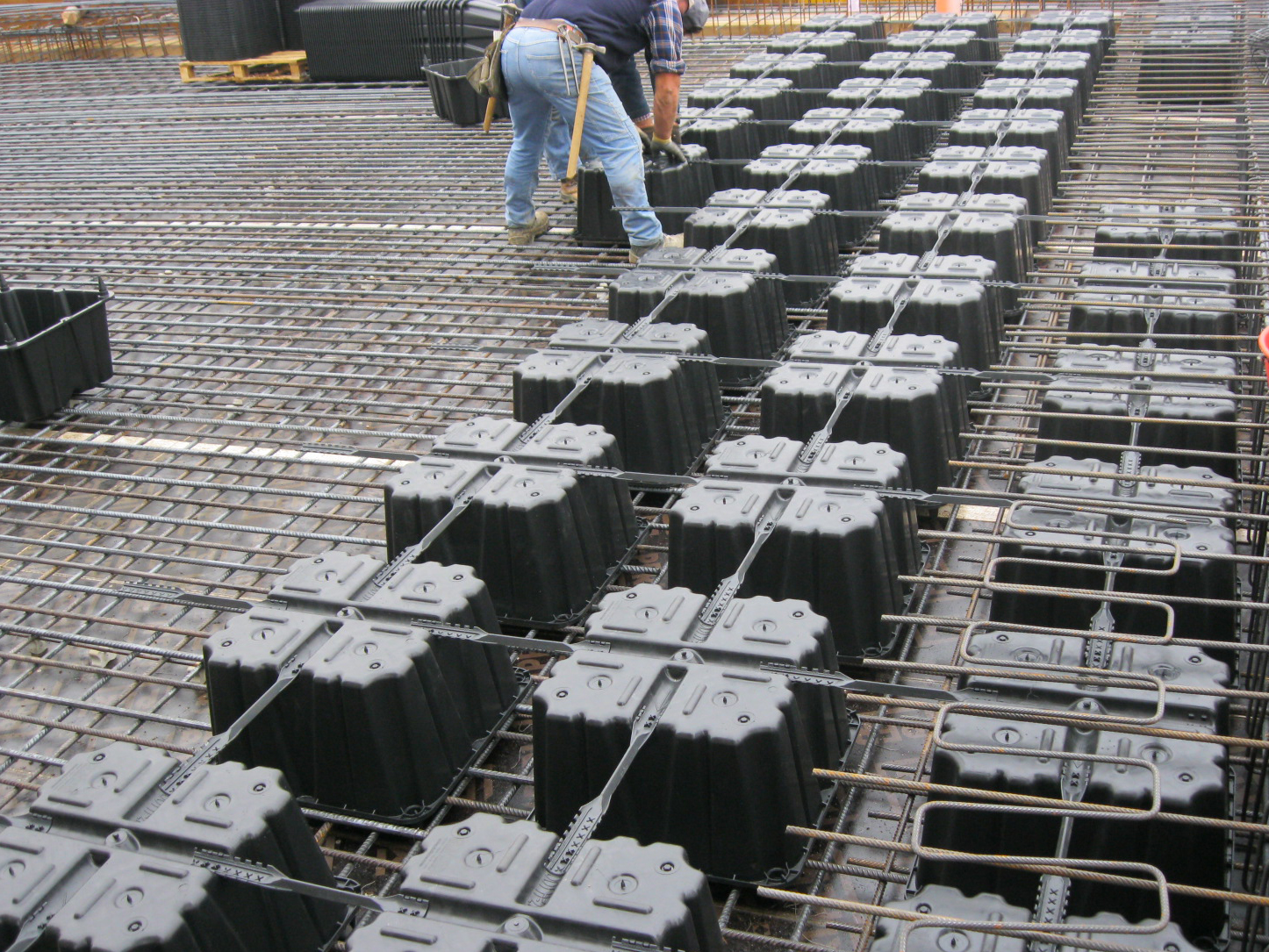 Disposable formwork for two-way voided slabs in reinforced concrete cast on site.